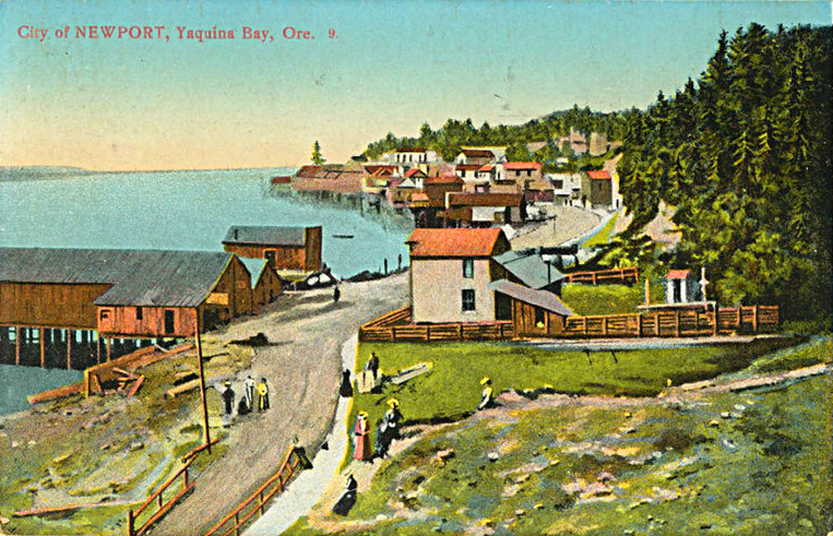 The historic Newport bayfront almost 100 years ago, as seen from the inland end, circa 1915.